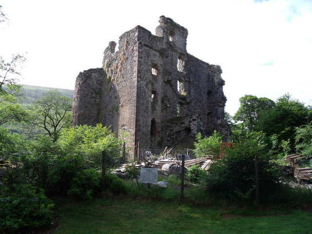 Invergarry Old Castle Invergarry Castle has been stabilised in recent years, but probably there are some problems to remove the scaffold. It is not nice to look at this mess. The ruin is called "dangerous" and there is sadly no access into the site. from July 2007. Interesting details about the stronghold of the MacDonells you can find here